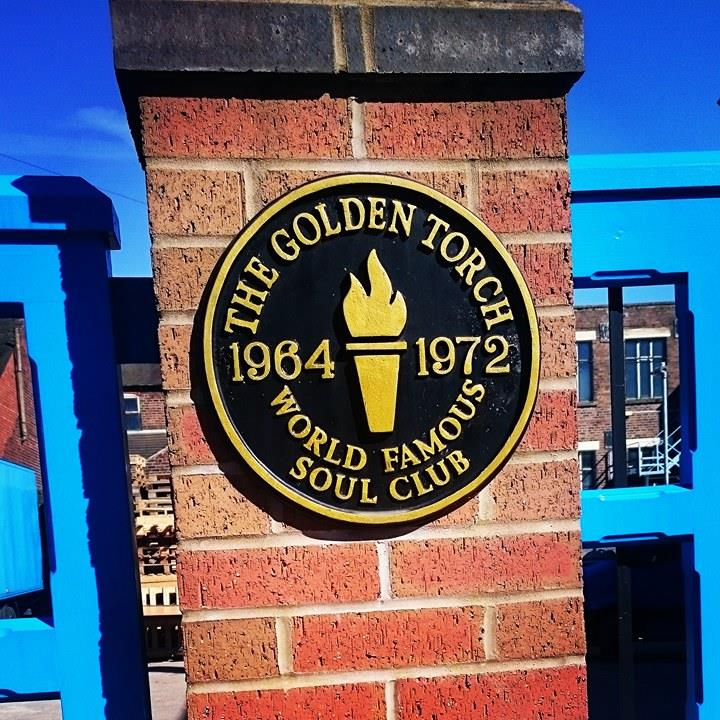 Commemorative plaque for the site of the world famous soul club venue "The Golden Torch" based in the town of Tunstall, Stoke-on-Trent.